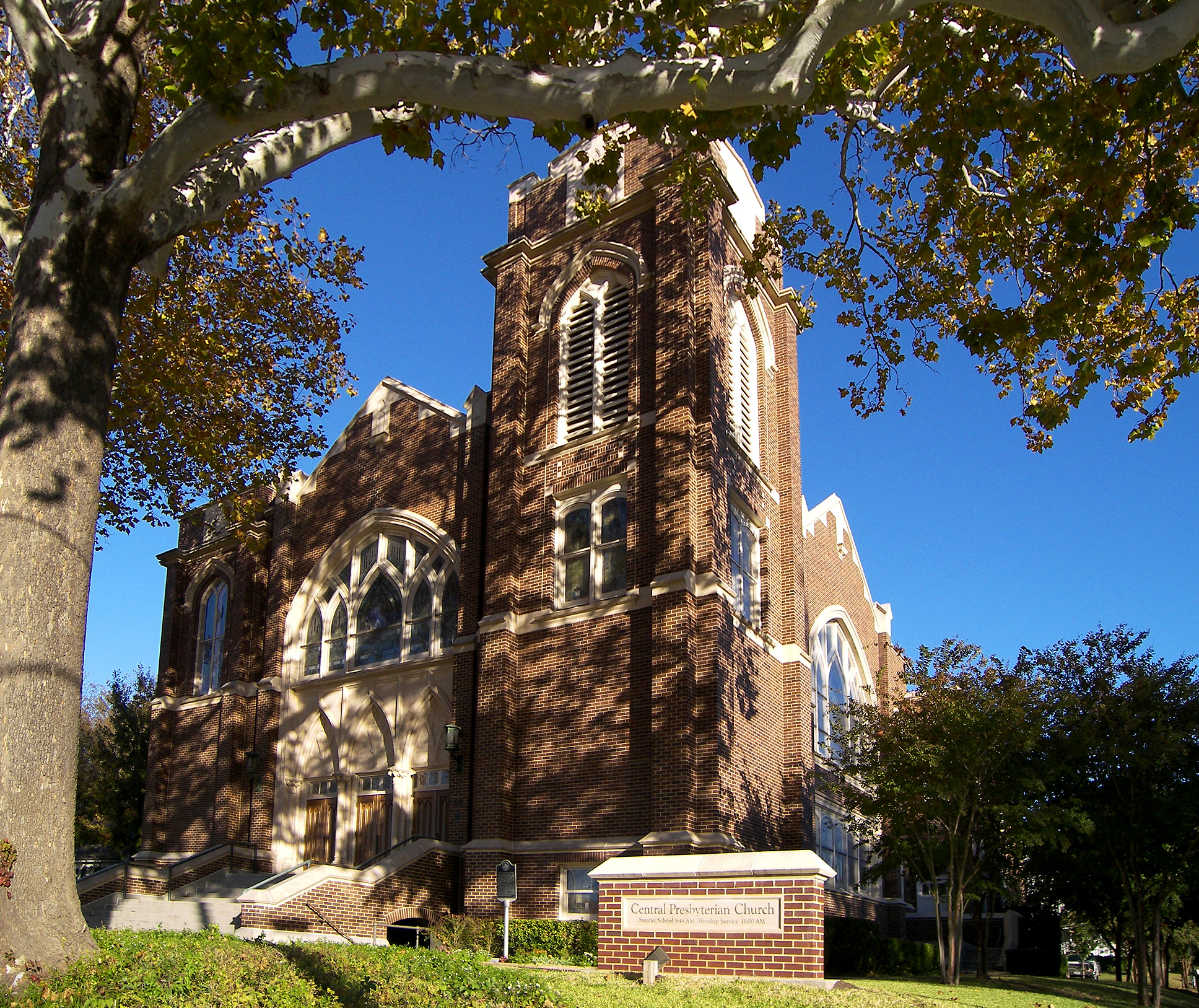 The Central Presbyterian Church located in Waxahachie, Texas, United States. The church was listed on the National Register of Historic Places on September 11, 1987.